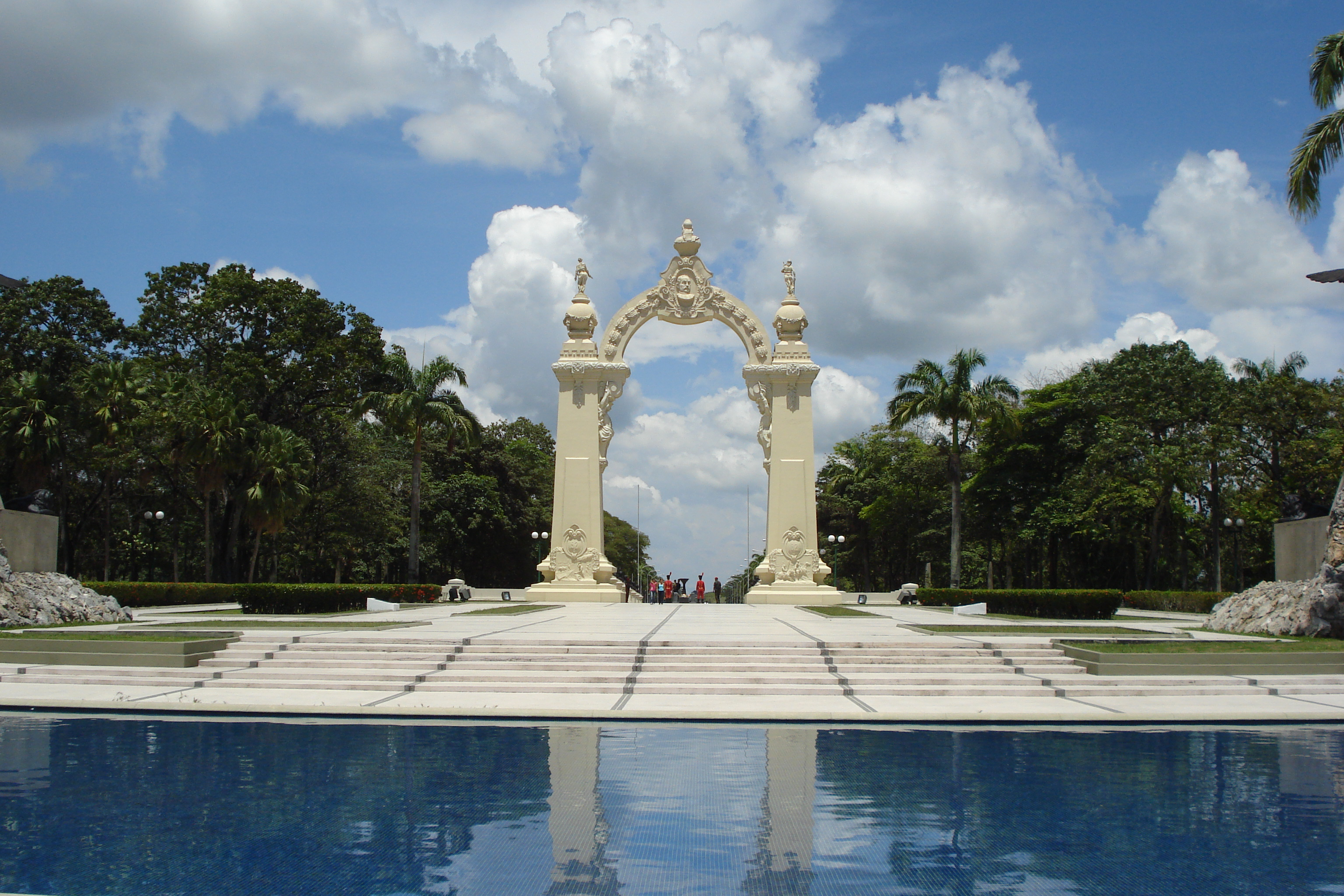 Arc of Carabobo, this monument commemorates the battle that sealed the independence of Venezuela from Spain